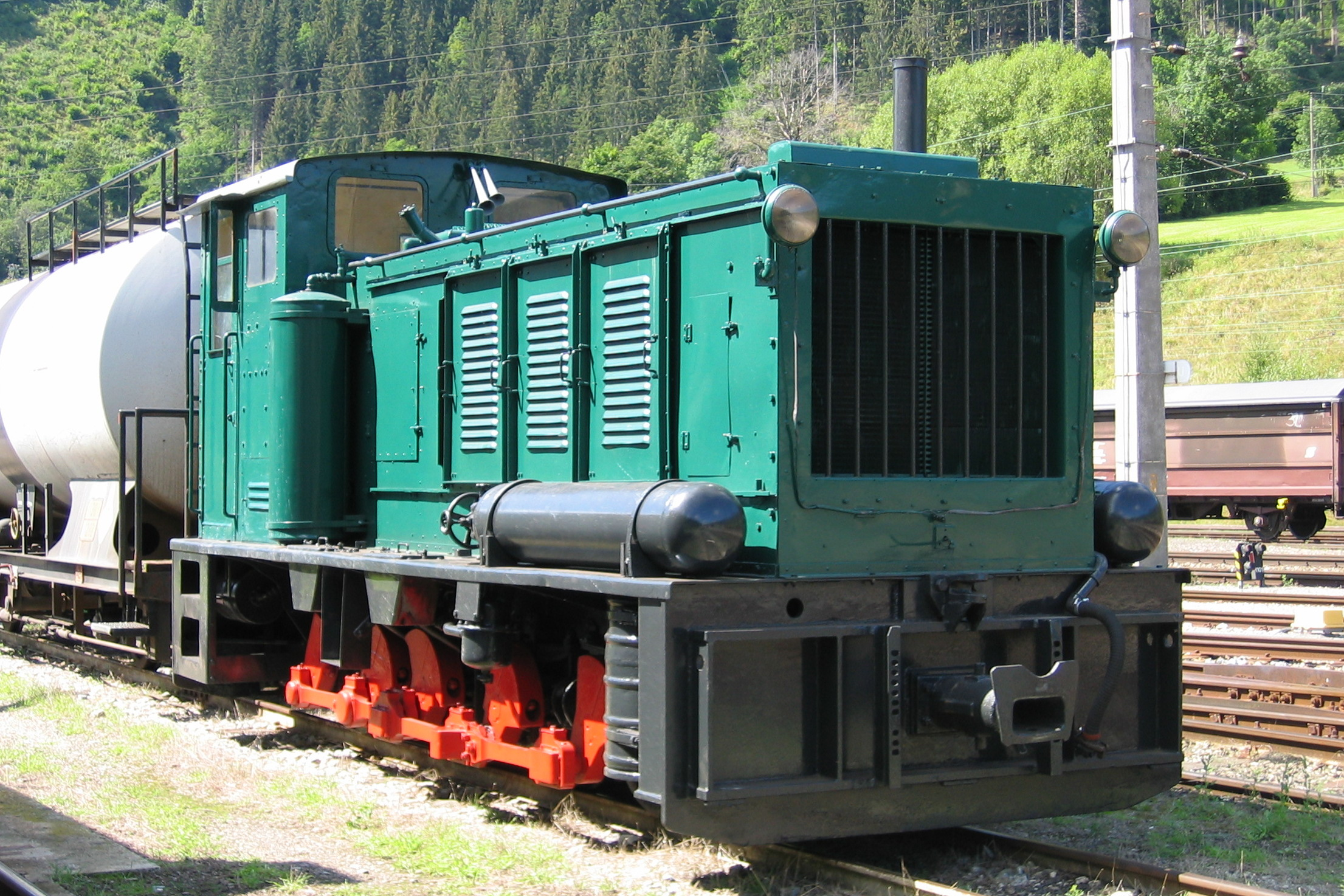 Former D40 of the Salzkammergut Lokalbahn, now preserved on the Taurachbahn in Salzburg. Picture taken in Unzmarkt on the Murtalbahn.